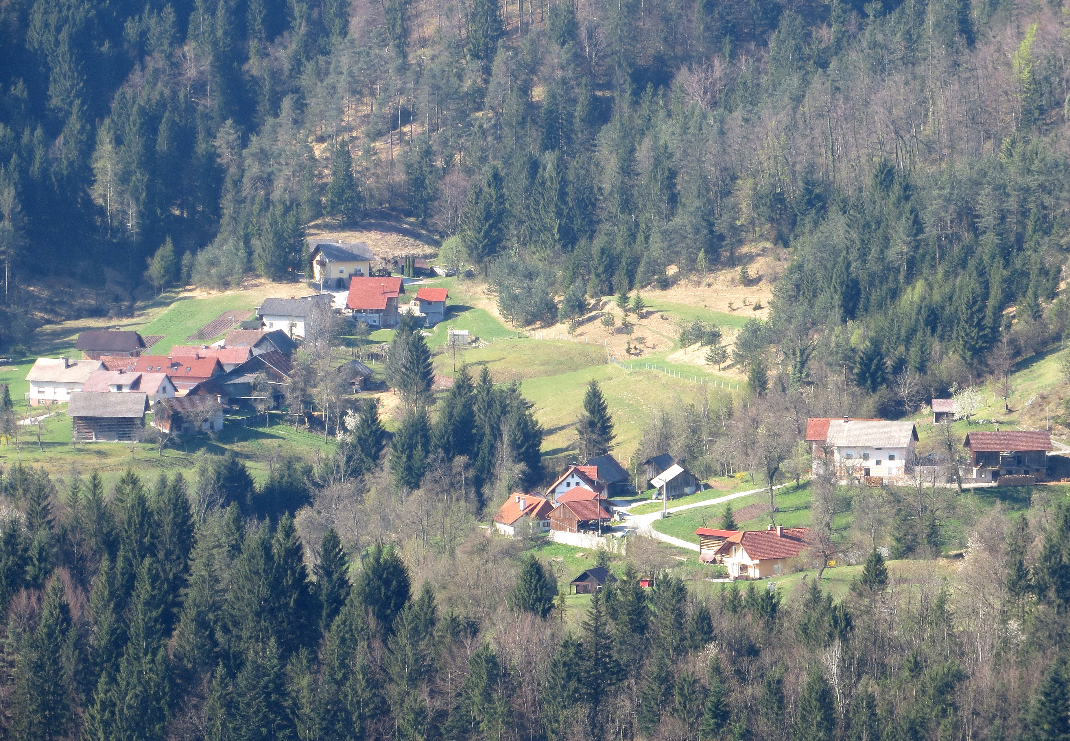 Bavdek (left) and Gradišče (right), Municipality of Velike Lašče, Slovenia